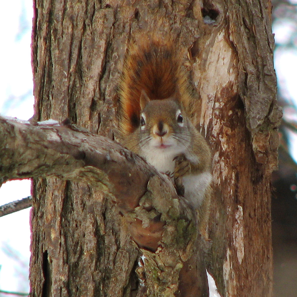 American red squirrel (Tamiasciurus hudsonicus) taken in Gatineau Park, Quebec.